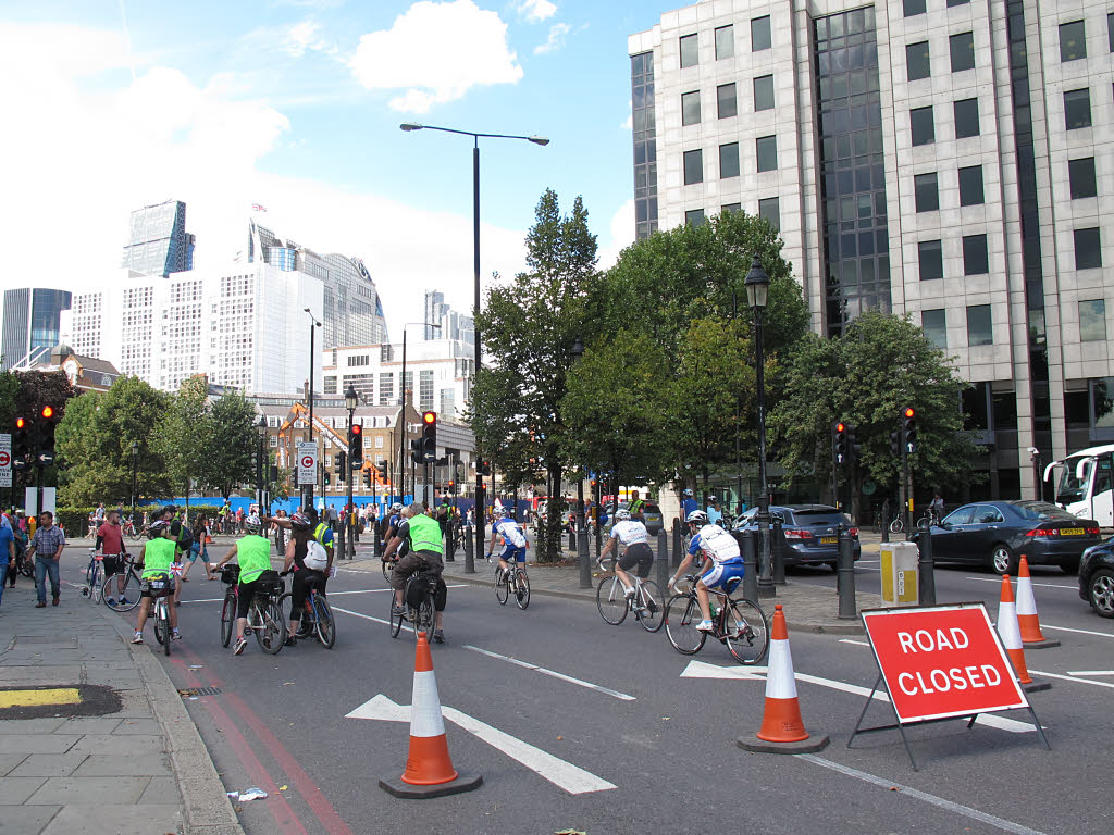 Tower Hill: road closed (except to cyclists)